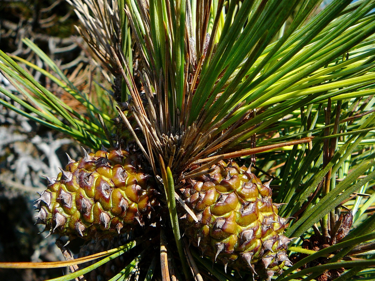 Pinus muricata cones, Mendocino, California.